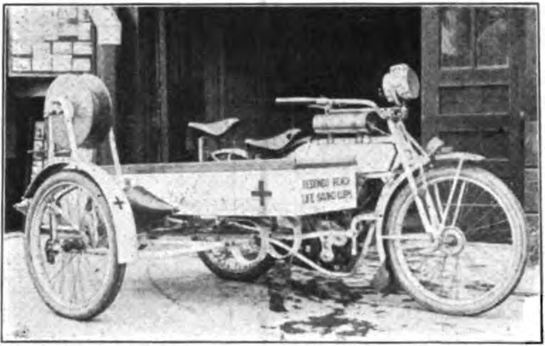 Side car ambulance used by beach life guards at Redondo Beach, California in 1915.